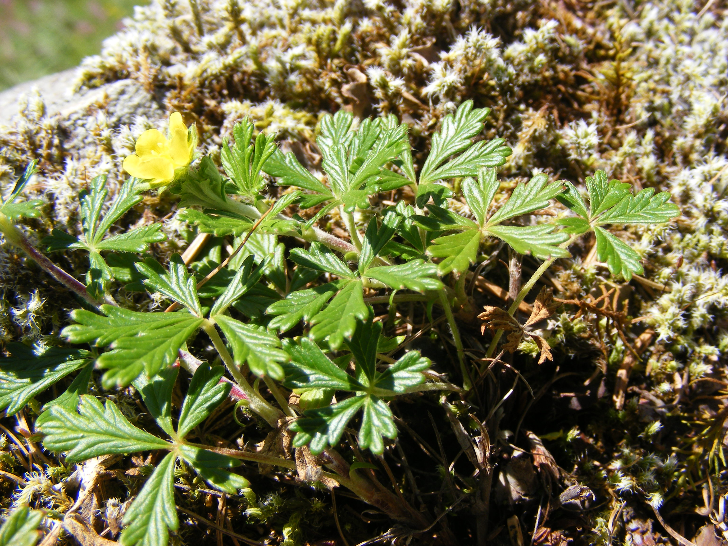 This photo shows Potentilla argente Plant as a whole